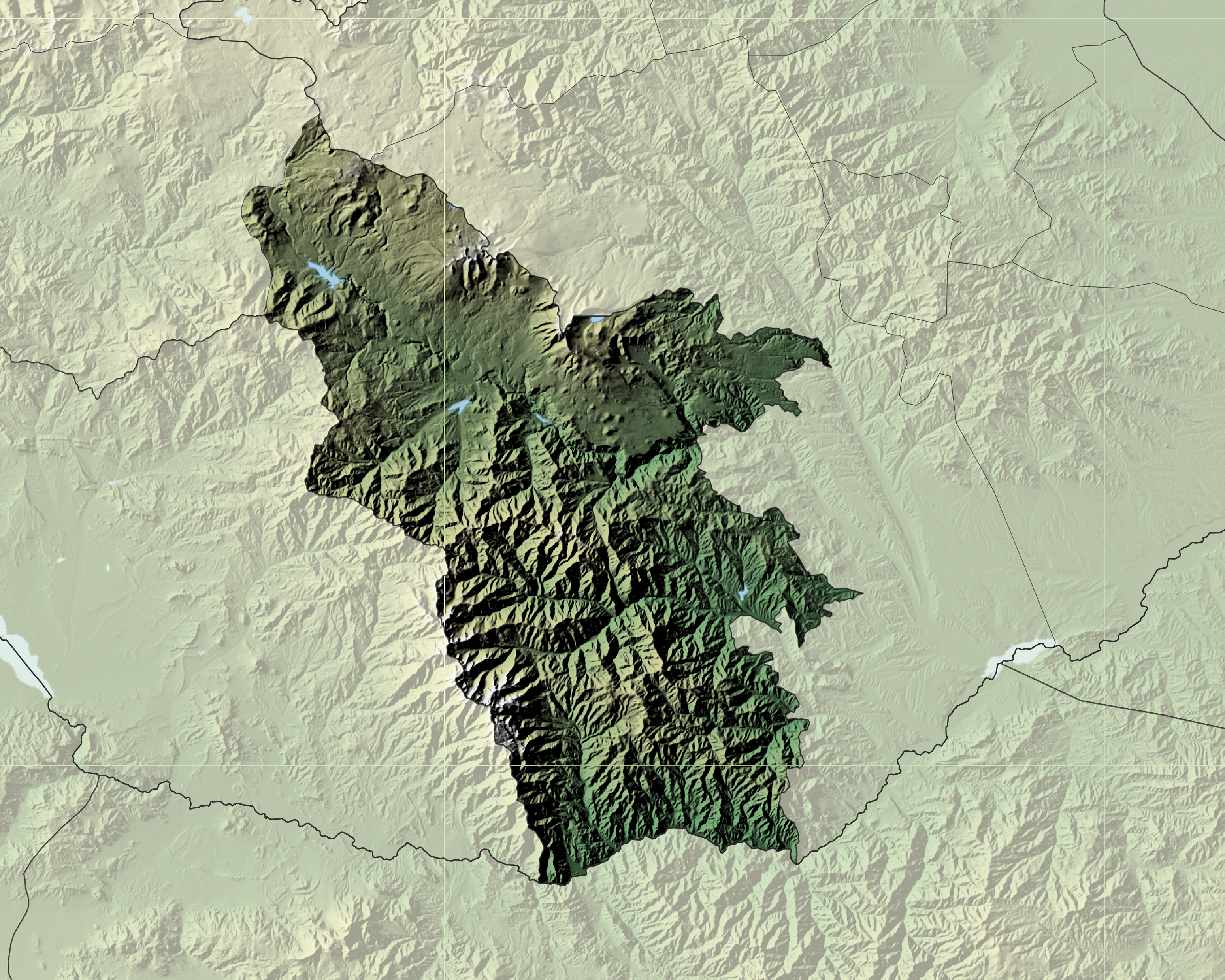 Hillshaded map of Syunik province of Armenia